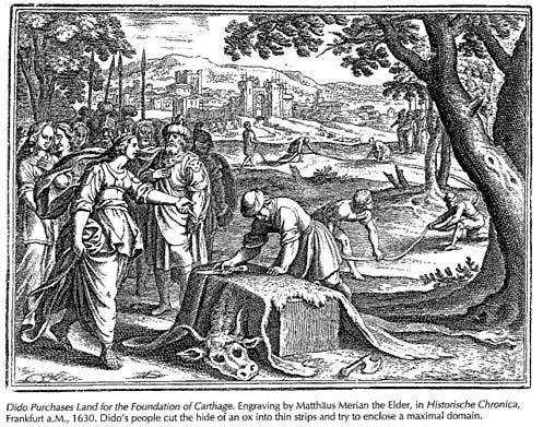 Dido purchases Land for the Foundation of Carthage, by Mathias Merian the elder from Historische Chronica Frankfurt 1630